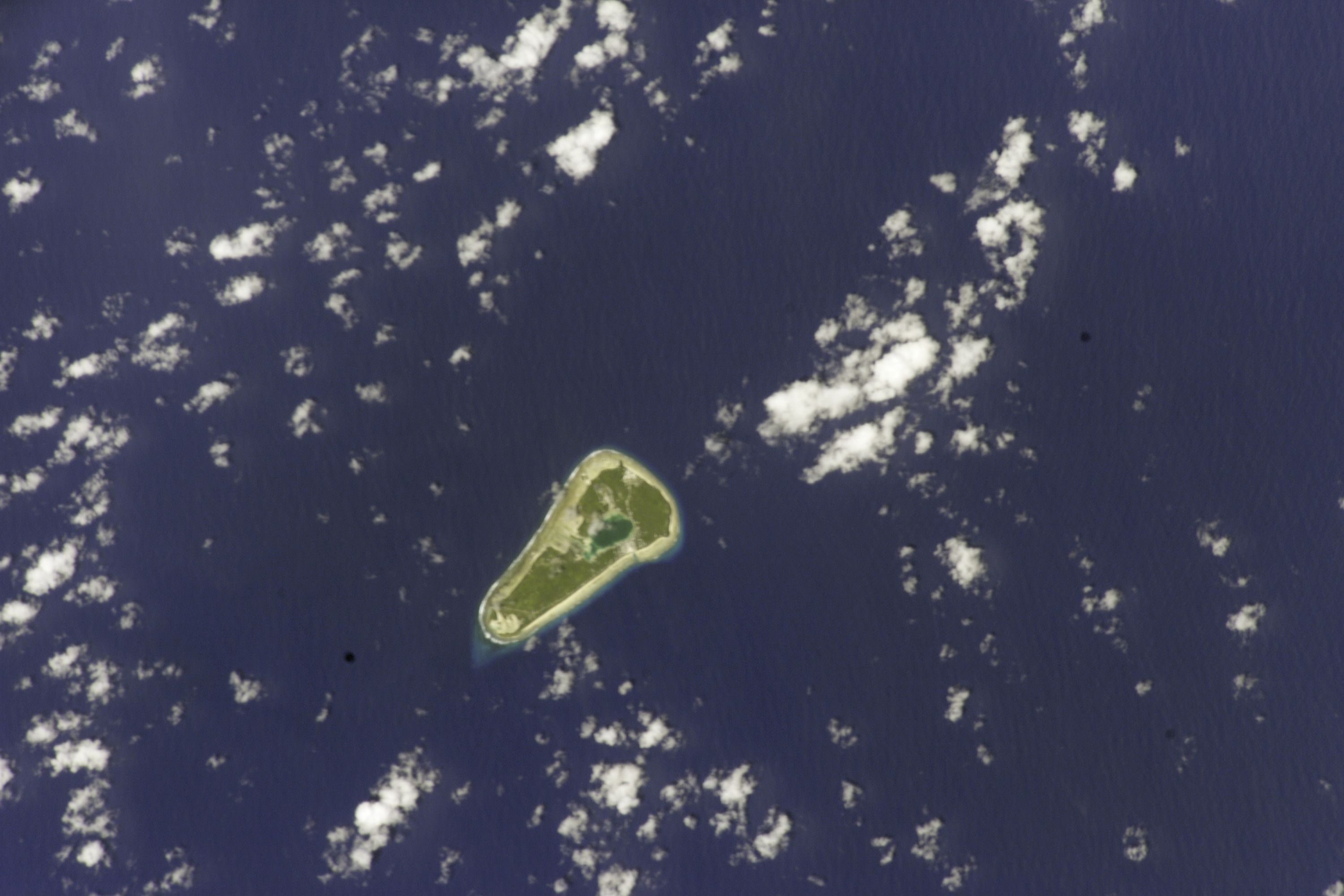 Vaitupu Island atoll, Tuvalu, from space